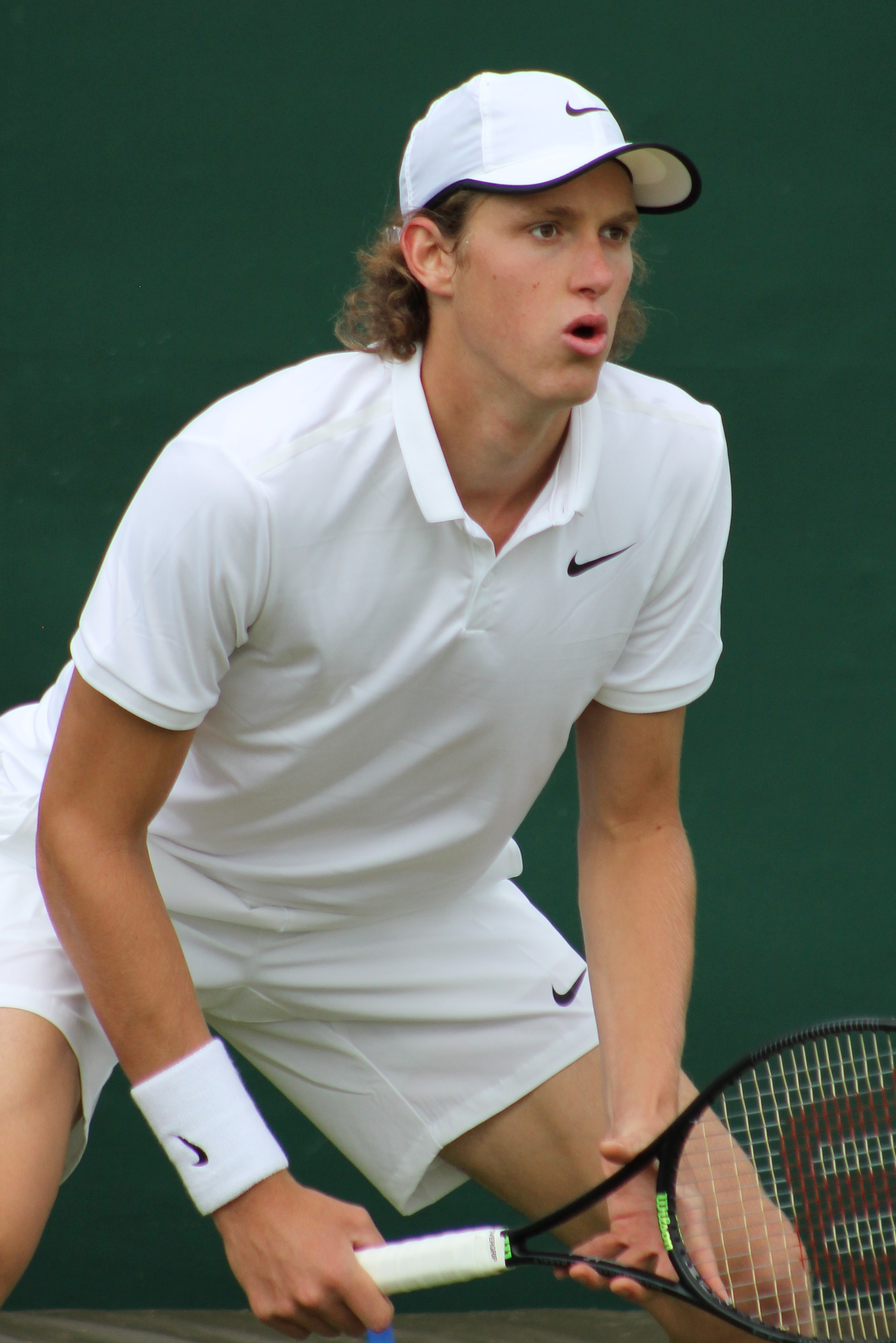 Jarry WMQ15 (7)